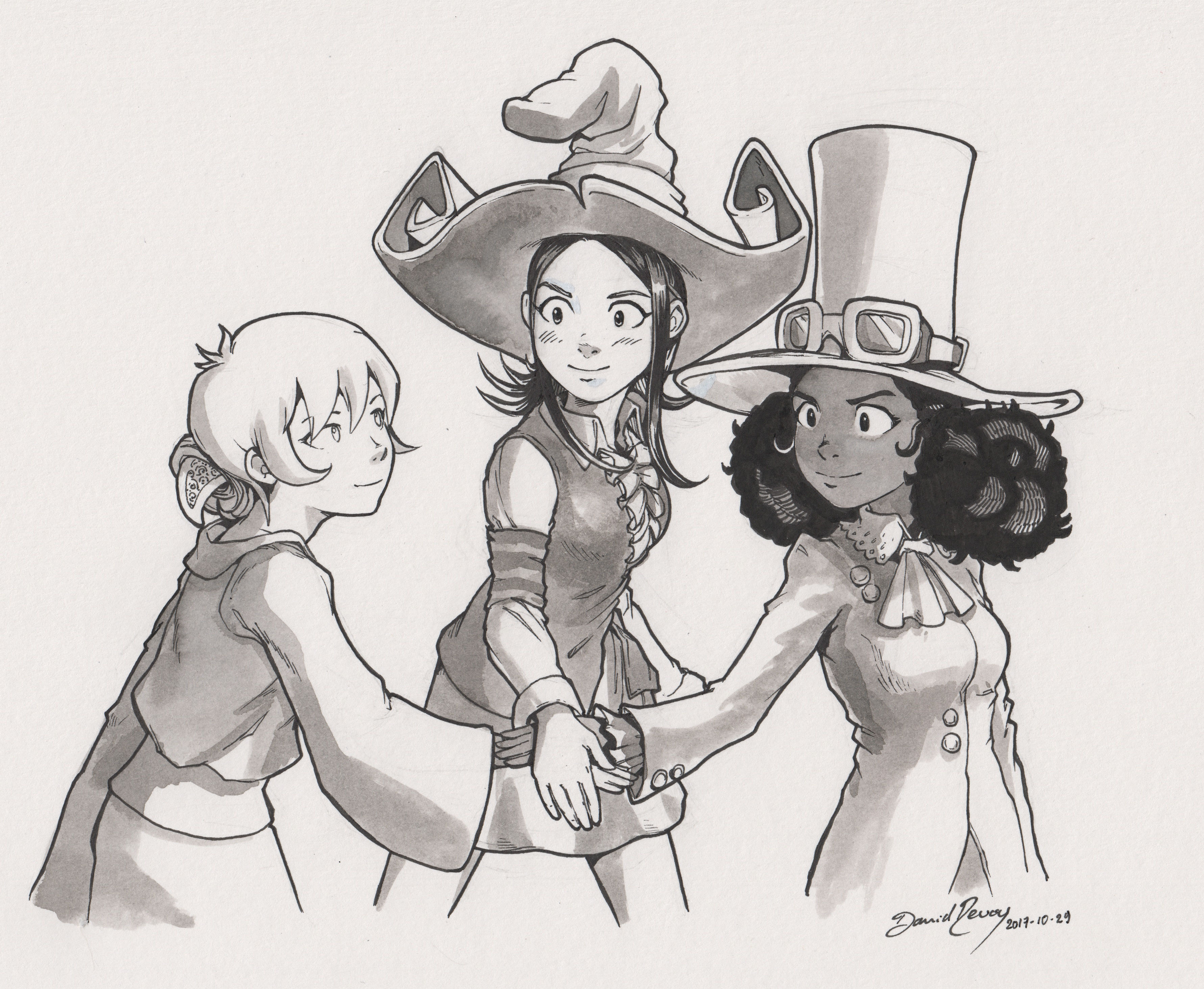 A drawing of “United” from the free/libre webcomic series of Pepper&Carrot by David Revoy.